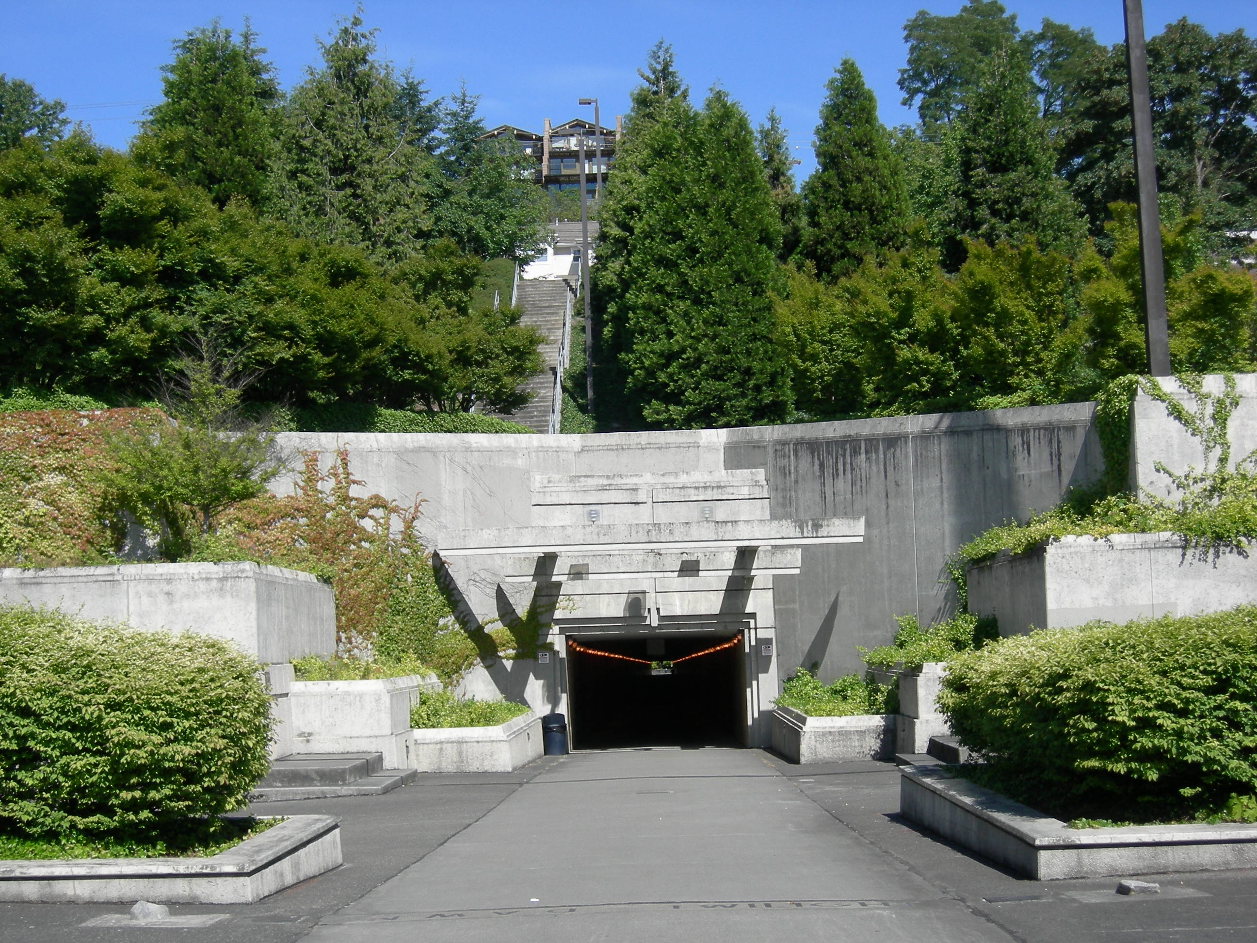 West entrance to the bicycle and pedestrian tunnel under part of Seattle, Washington's Mt. Baker neighborhood, parallel to Interstate 90 and leading to the bike/pedestrian path on the I-90 floating bridge (officially the Homer Hadley Bridge).